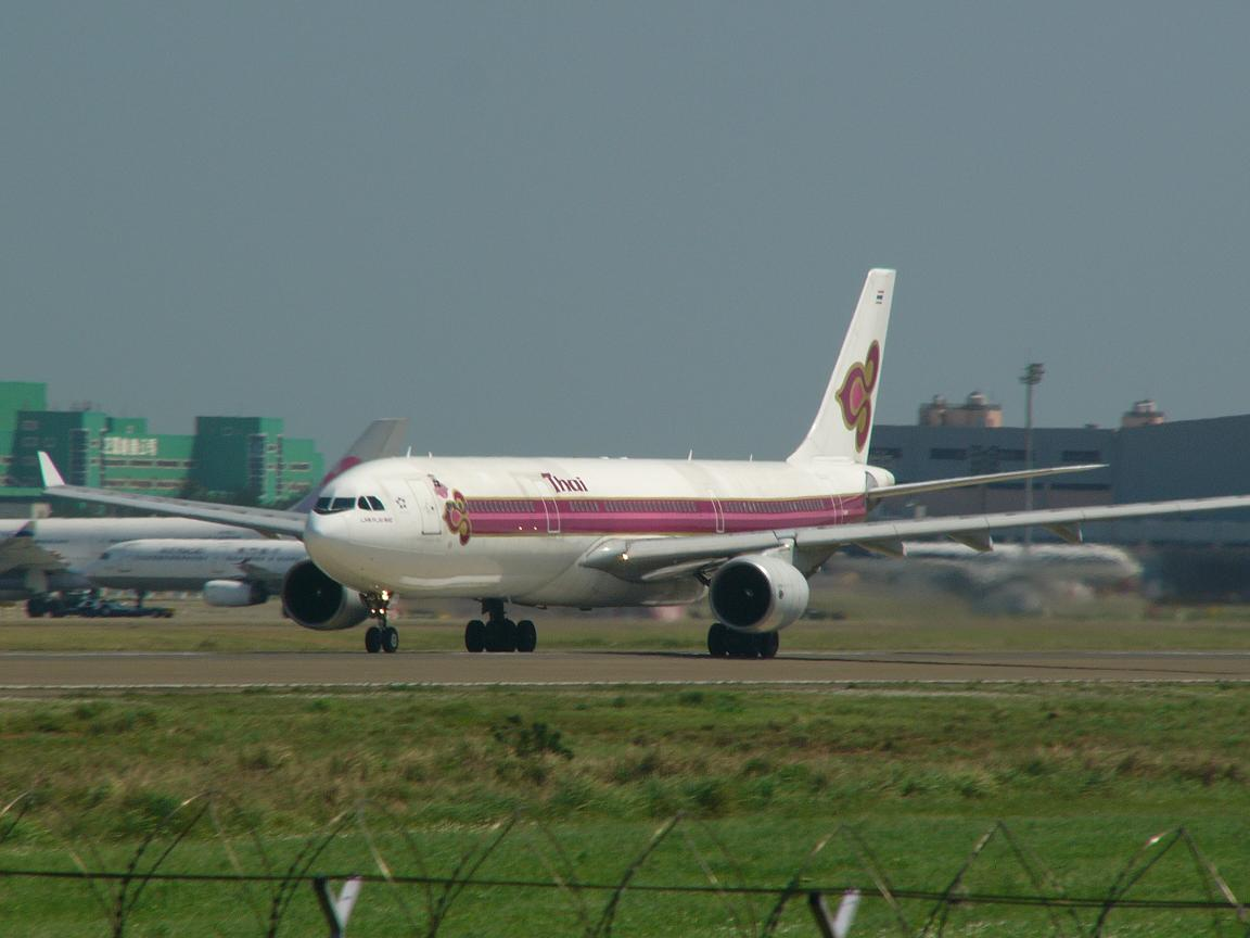 Thai Airways Airbus A330-300 at C.K.S. Intl. Airport in Taiwan.